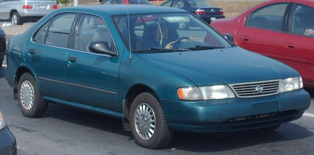 1995-1997 Nissan Sentra photographed in Montreal, Quebec, Canada.